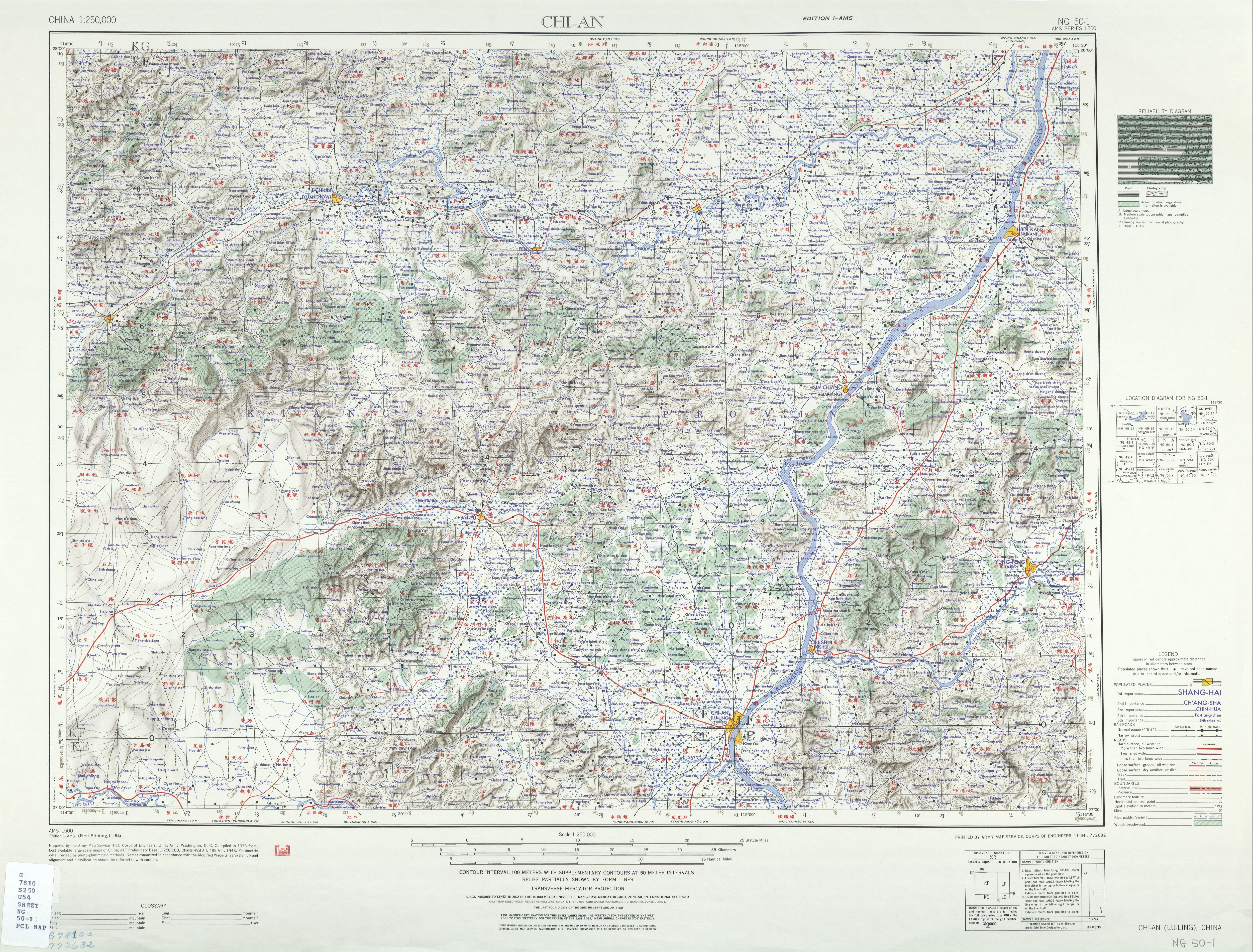 China AMS Topographic Maps